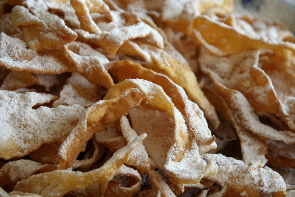 A close-up on ' - a traditional Polish sweet crispy biscuits